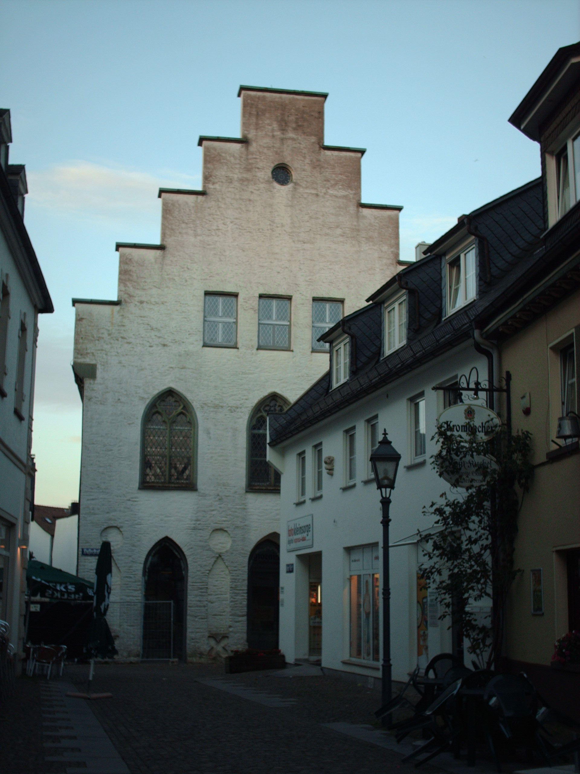 Old town hall with museum, Attendorn, Germany check usage